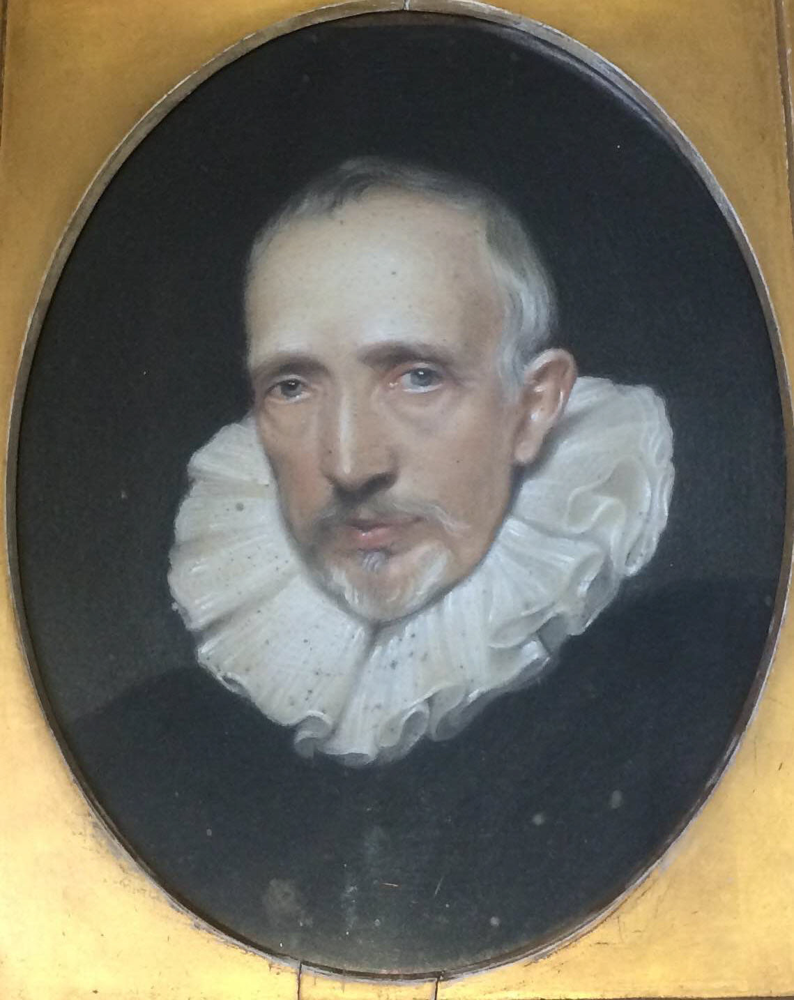 Copy by F.W. Lock of a 17th Century Bearded Gentleman with a Ruff. A copyist work by F. W. Lock in 1841 at the National Gallery, London, of an original portrait of Cornelis van der Geest, by Anthony Van Dyck, c.1620.